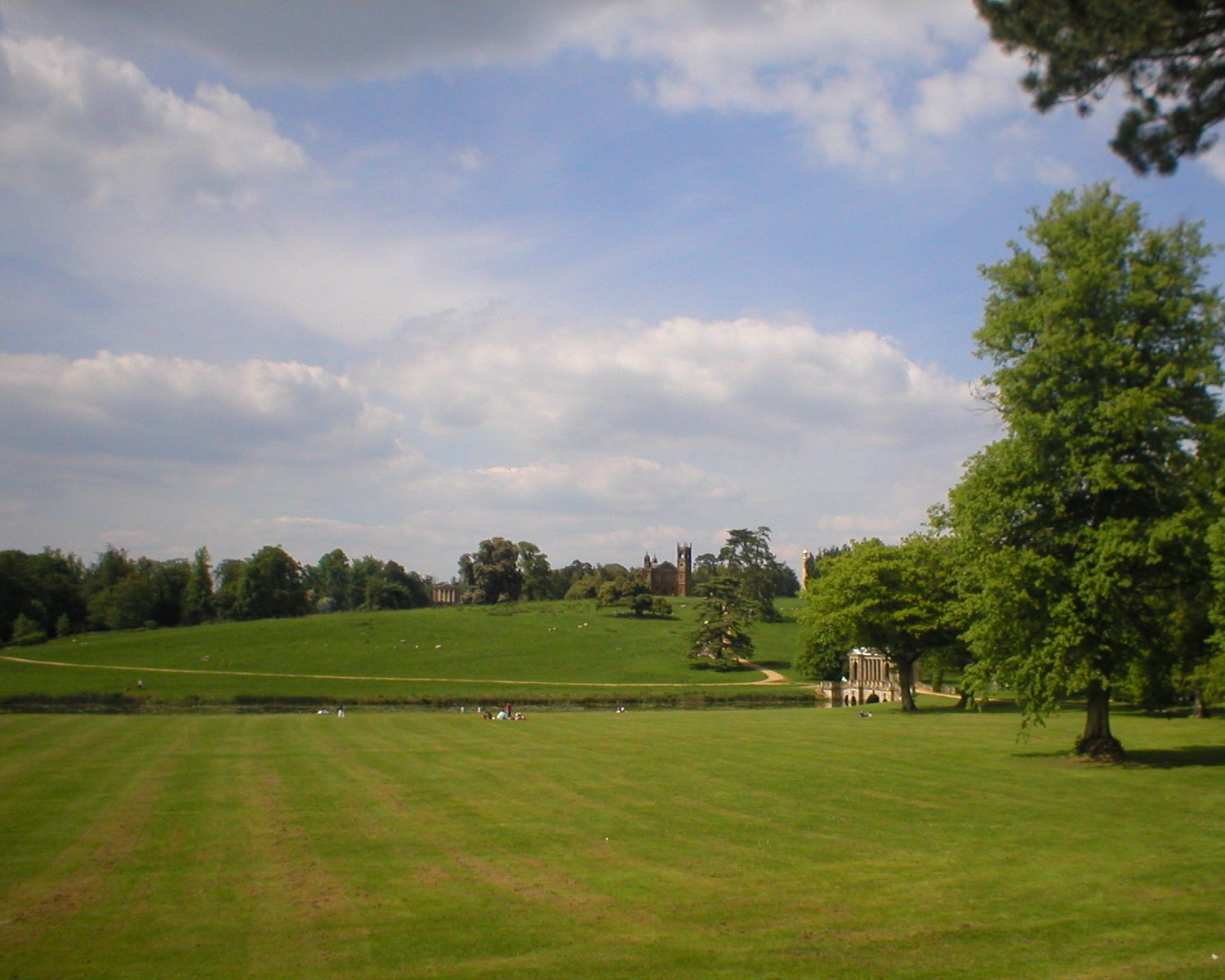 View of buildings in Stowe gardens, 23 May 2004, taken by User:ALoan. The Palladian Bridge is on the right and the Gothic Temple is on the rising ground.